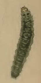 Stainton’s Natural History of the Tineina (1855–1873): Epermenia falciformis